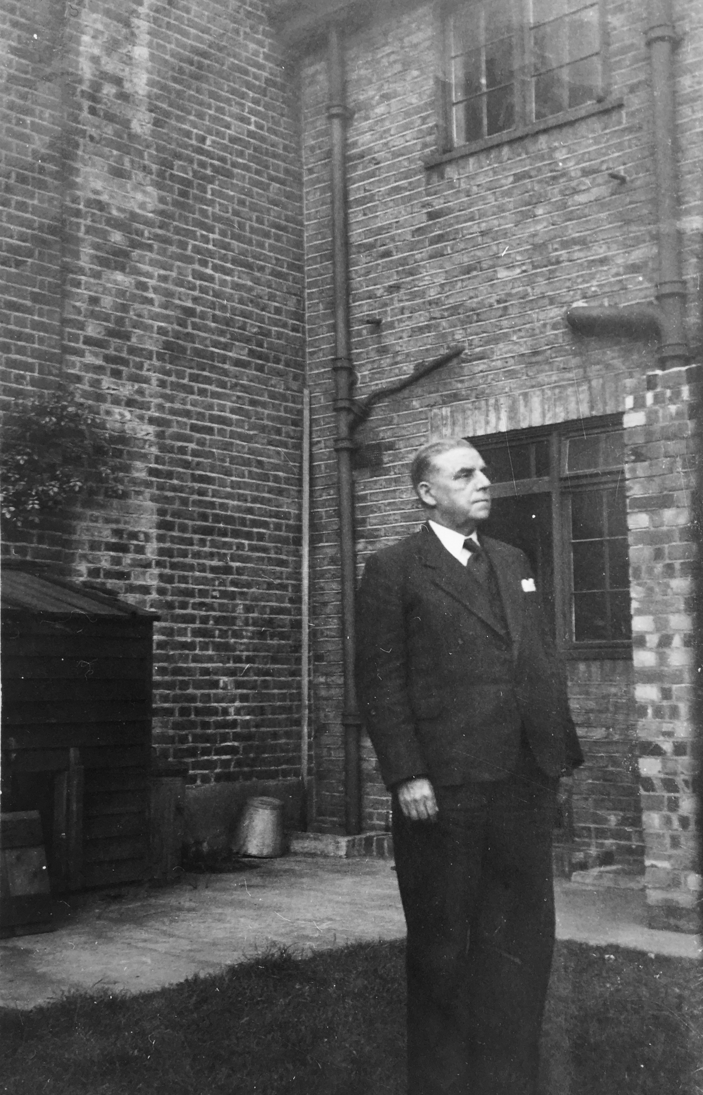 Image of John W. Stephenson, courtesy Steve & Mark Sears & Jane Chaffee.